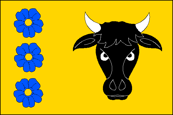 Municipal flag of Voleč village, Pardubice District, Czech Republic.